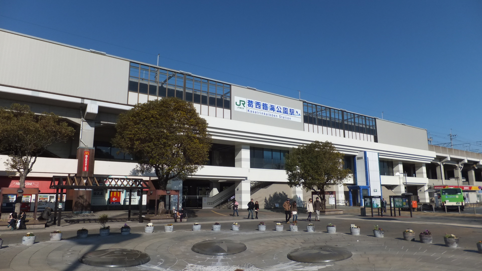 Kasai-Rinkai-kōen Station on the Keiyo Line in Edogawa, Tokyo, Japan